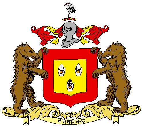 Coats of arms of Indian Princely State BansdaMaharawul of.... Arms: Or, three dexter hands appaumé Sable, ensigned with flames of the field within a bordure gules. Crest: On a helmet to the dexter, lambrequined Or and Sable a Sara (Ibis leucocephalus - Ciconiidæ) proper. Supporters: Two bears, ensigned on the shoulder with flames proper. Motto: Wansheshwapi Chandra